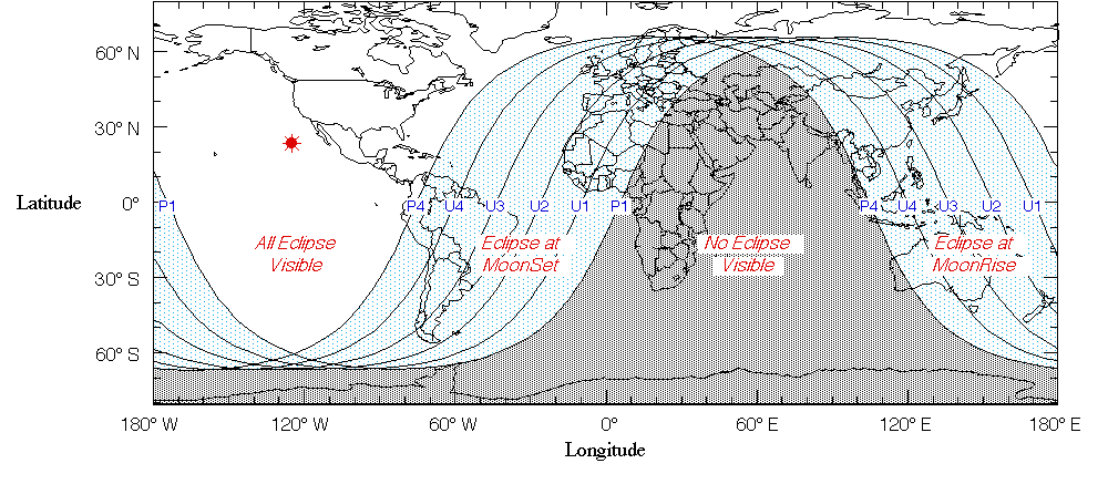 Visibility of the 2010-12-21 lunar eclipse